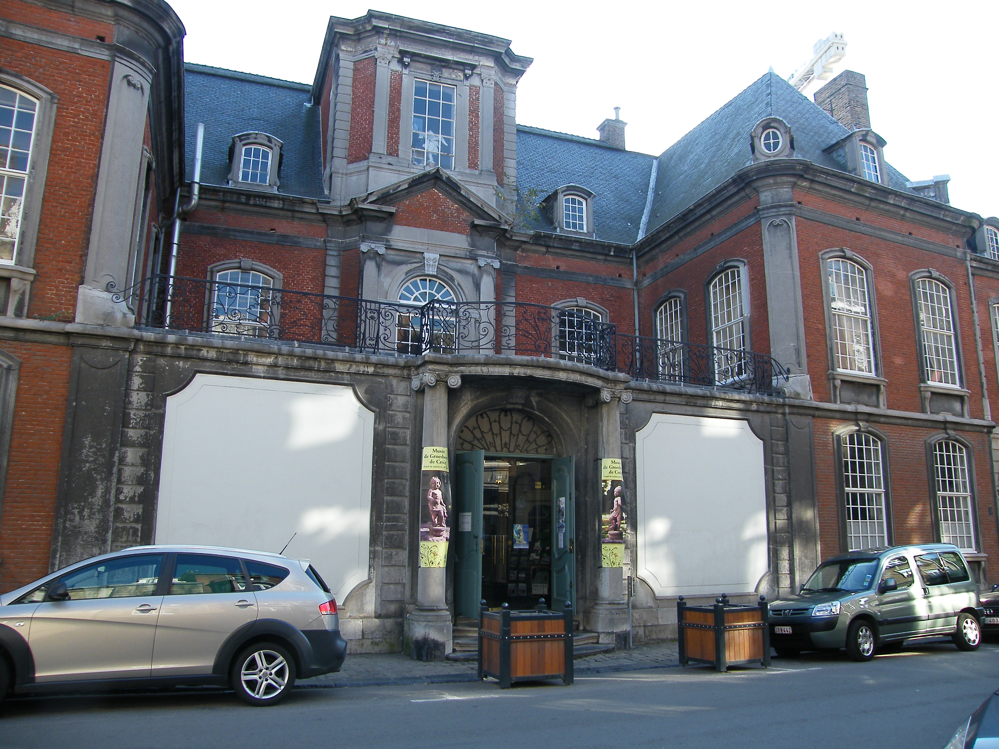 Namur (Belgium): Hôtel de Croix (now Museum Groesbeeck de Croix), garden